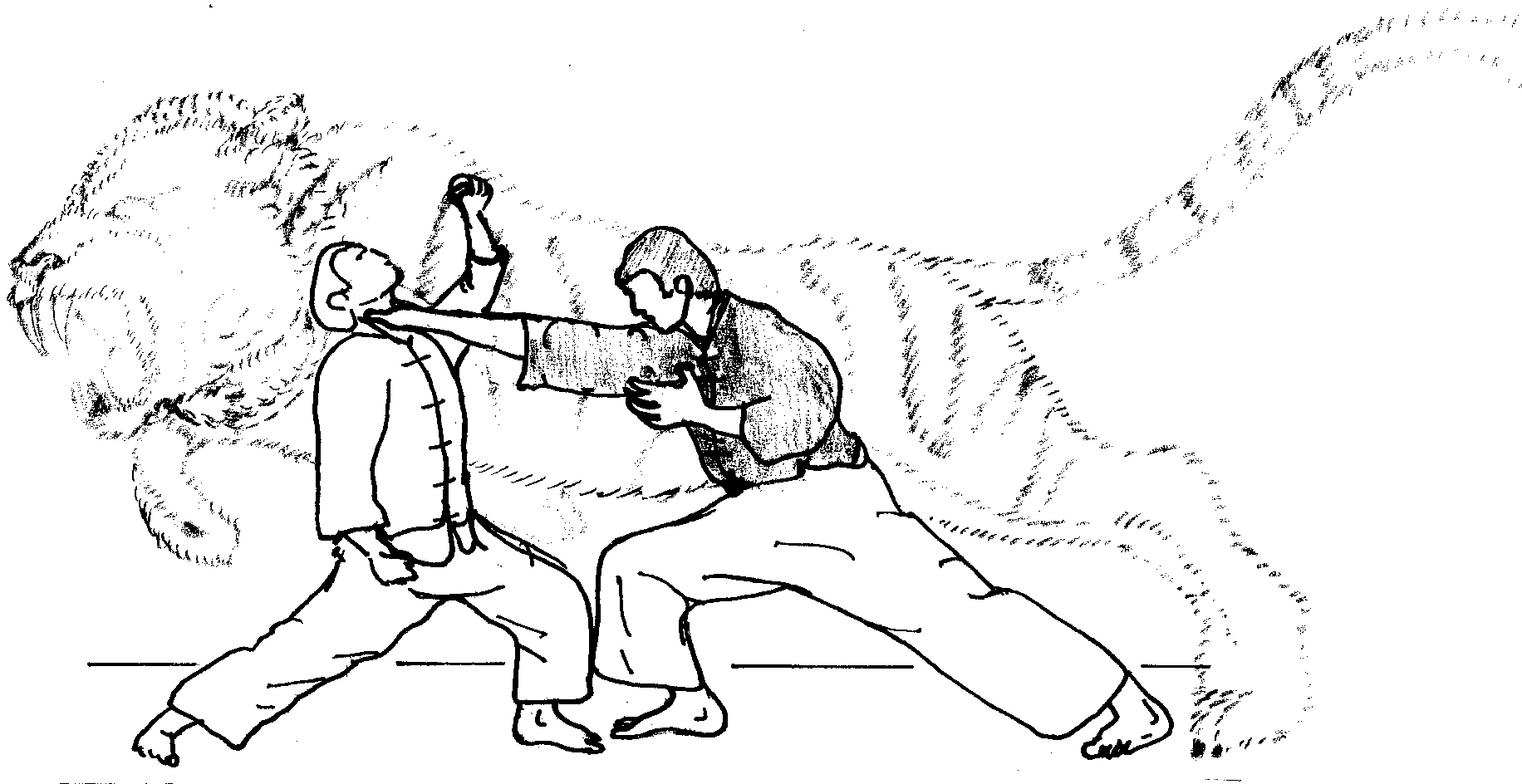 punch_tigre1